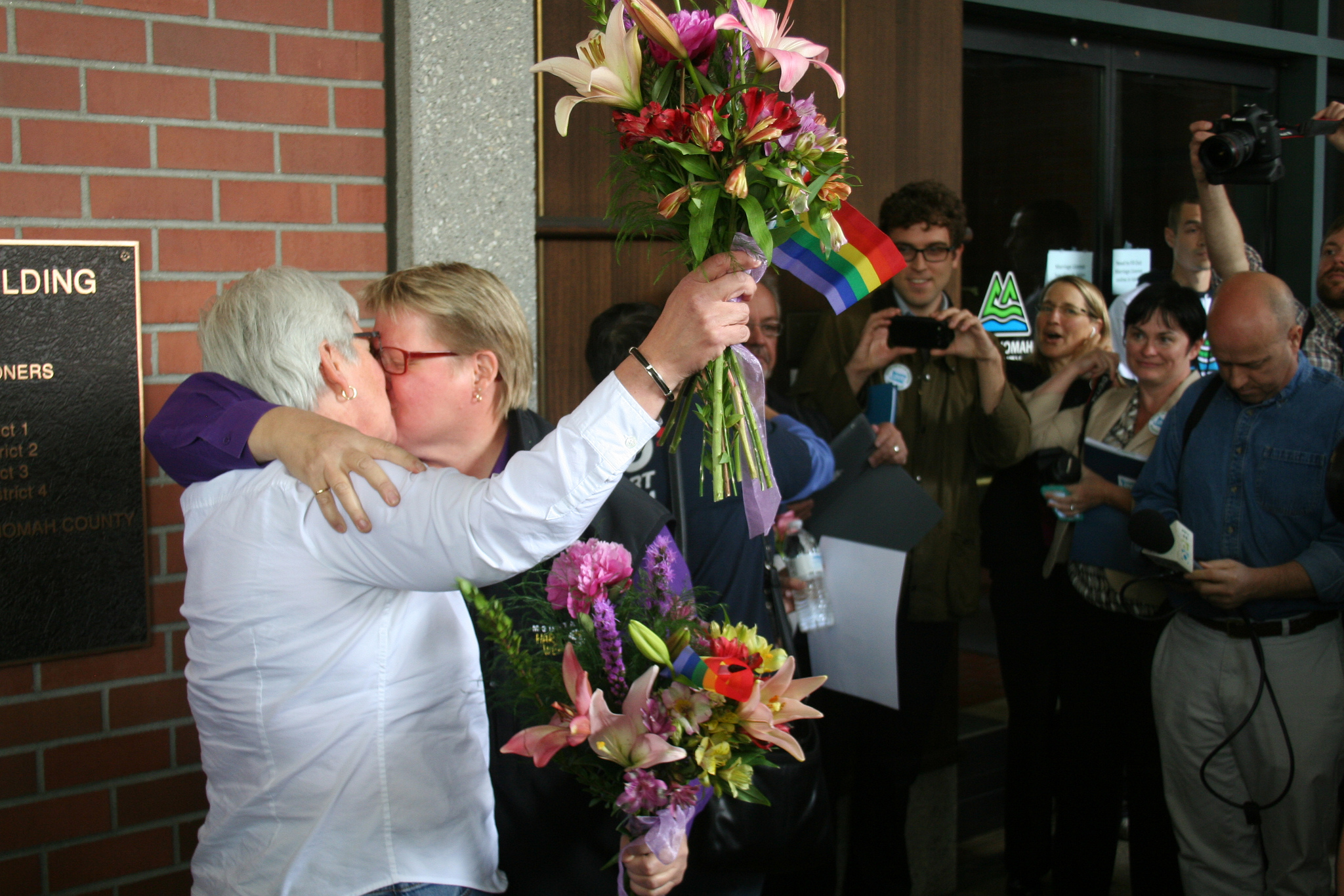 Standing outside the Multnomah County office, marriage equality plaintiffs Deanna Geiger and Jean Nelson hear the news that they've won their case for marriage equality in Oregon.